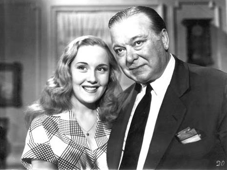 Avivato- película argentina de 1949